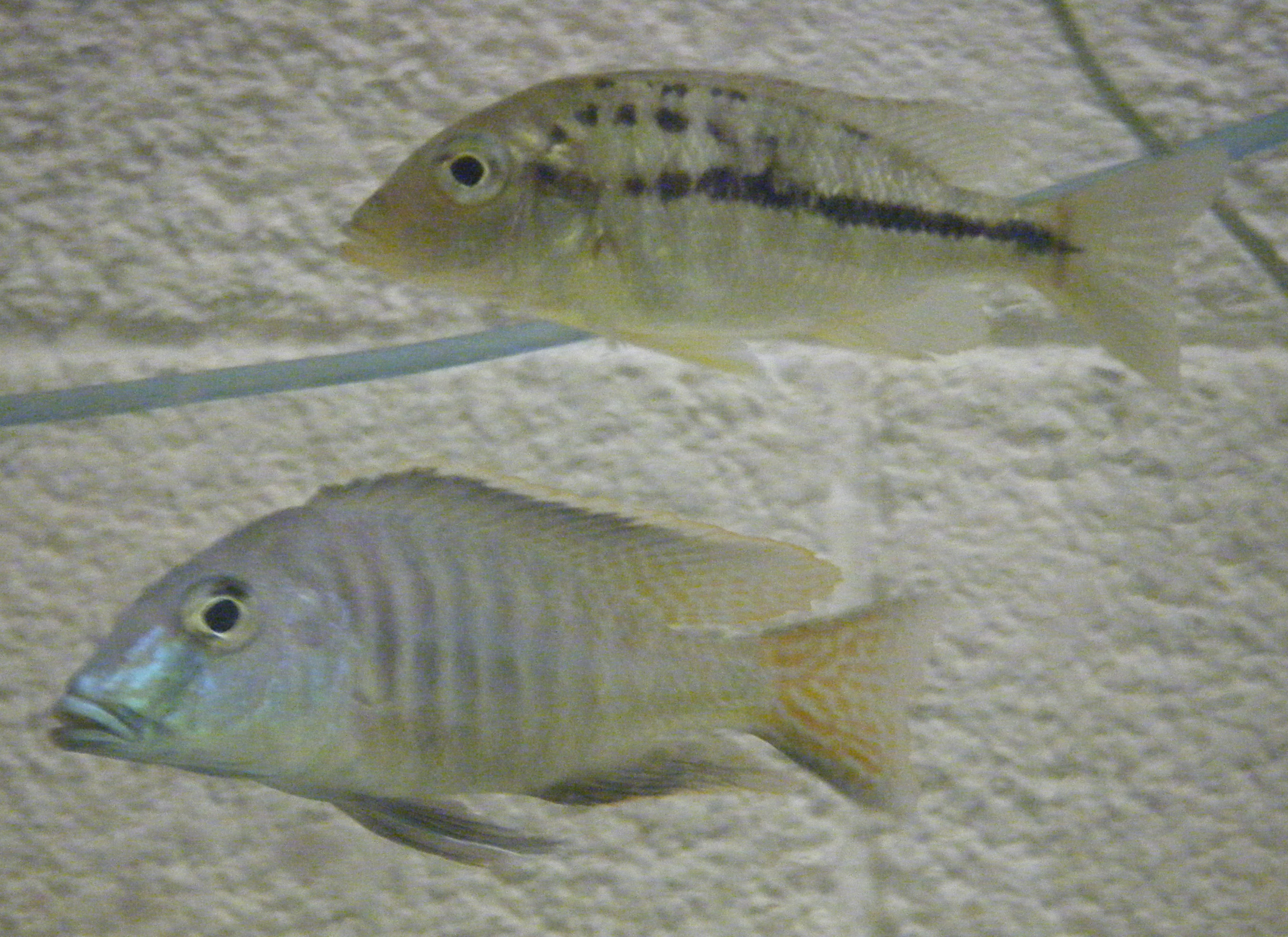 Lethrinops lethrinus, wild caught male and female from Mazinzi Reef